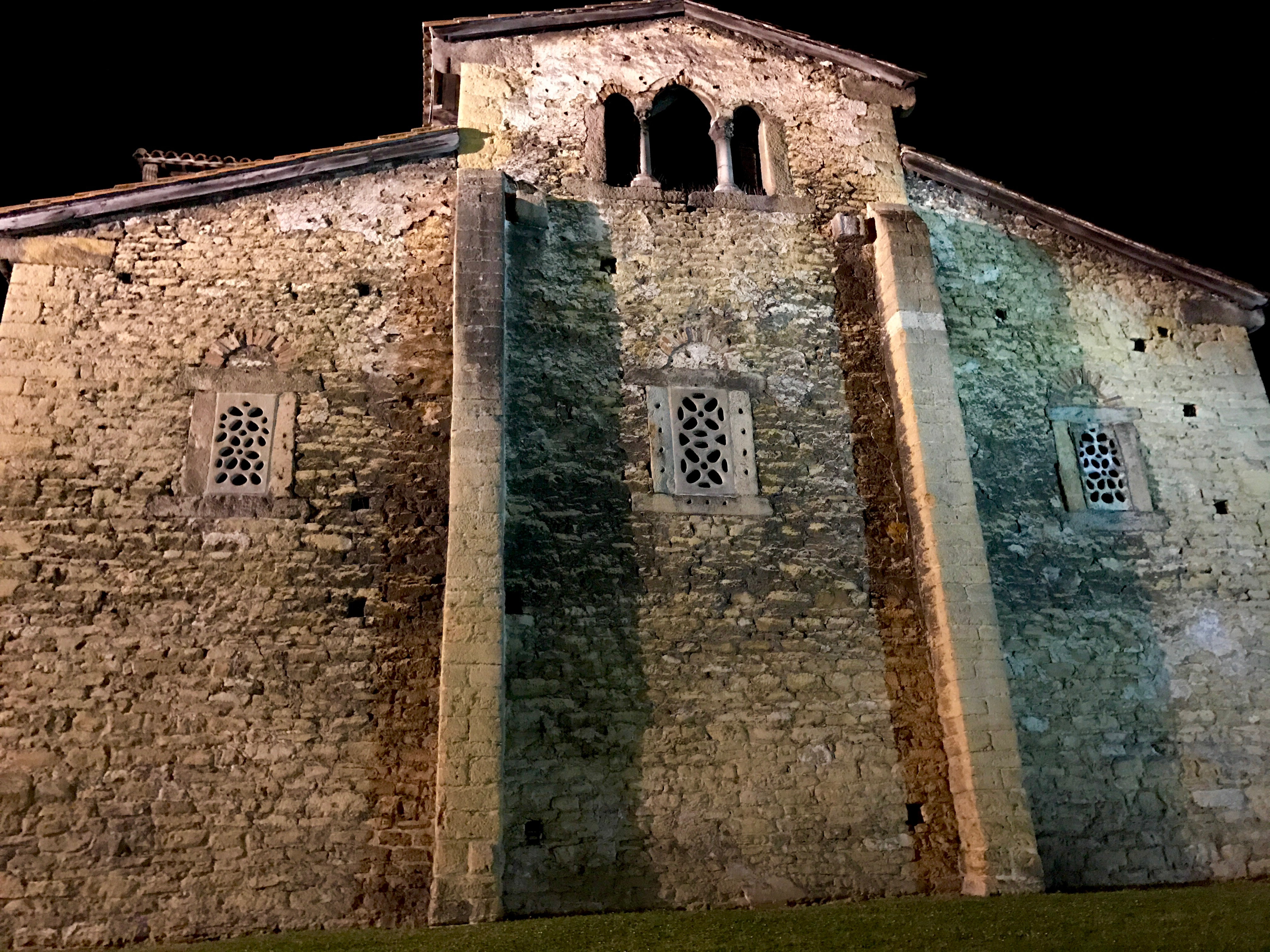 Picture of the east face of the 9th century Pre-Romanesque Basilica of San Julian de los Prados or Santullano at night. Cultural heritage monument from the old kingdom of the Asturias.